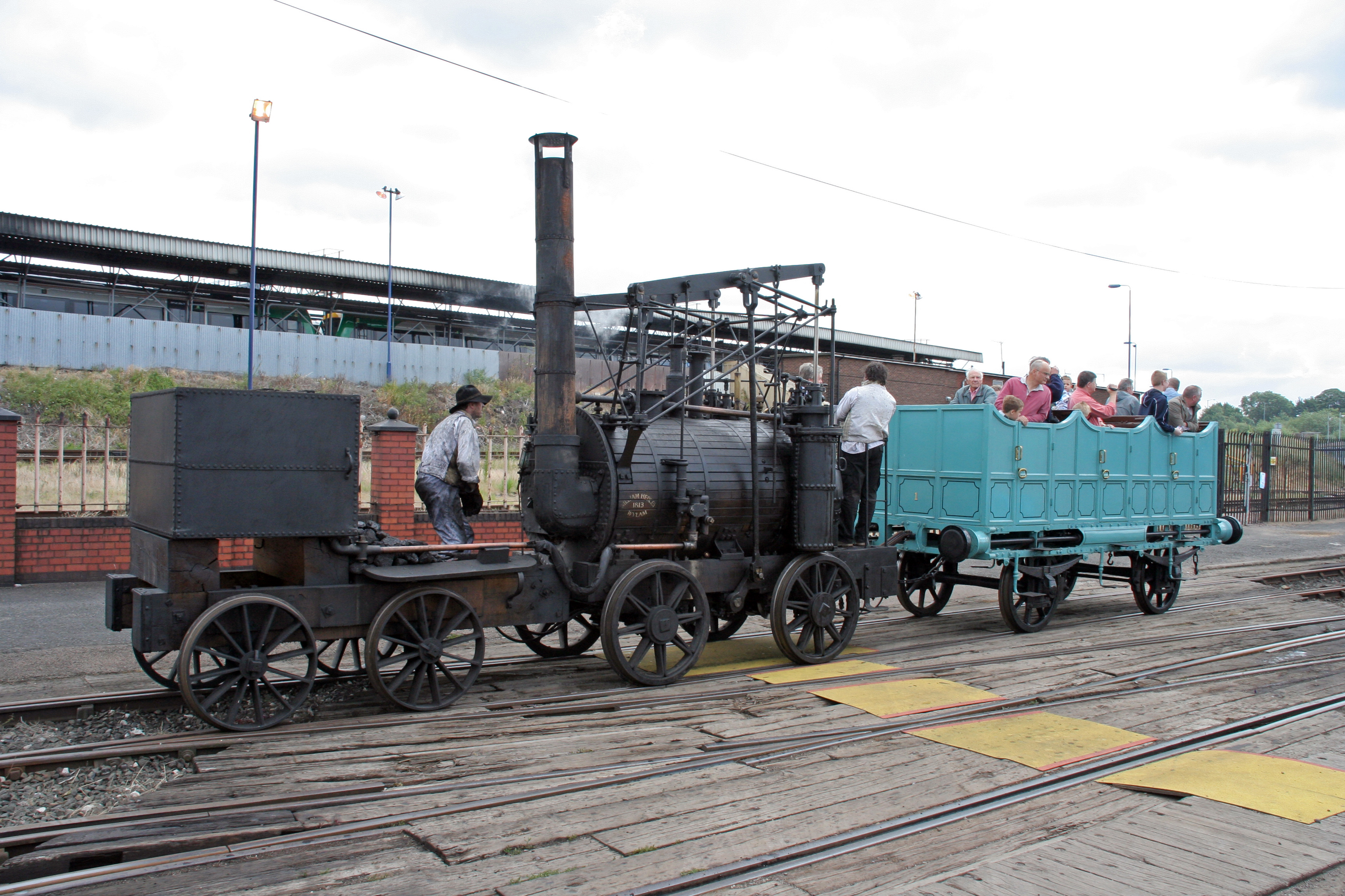 Open weekend to celebrate one hundred years of the Tyseley Locomotive depot, Birmingham